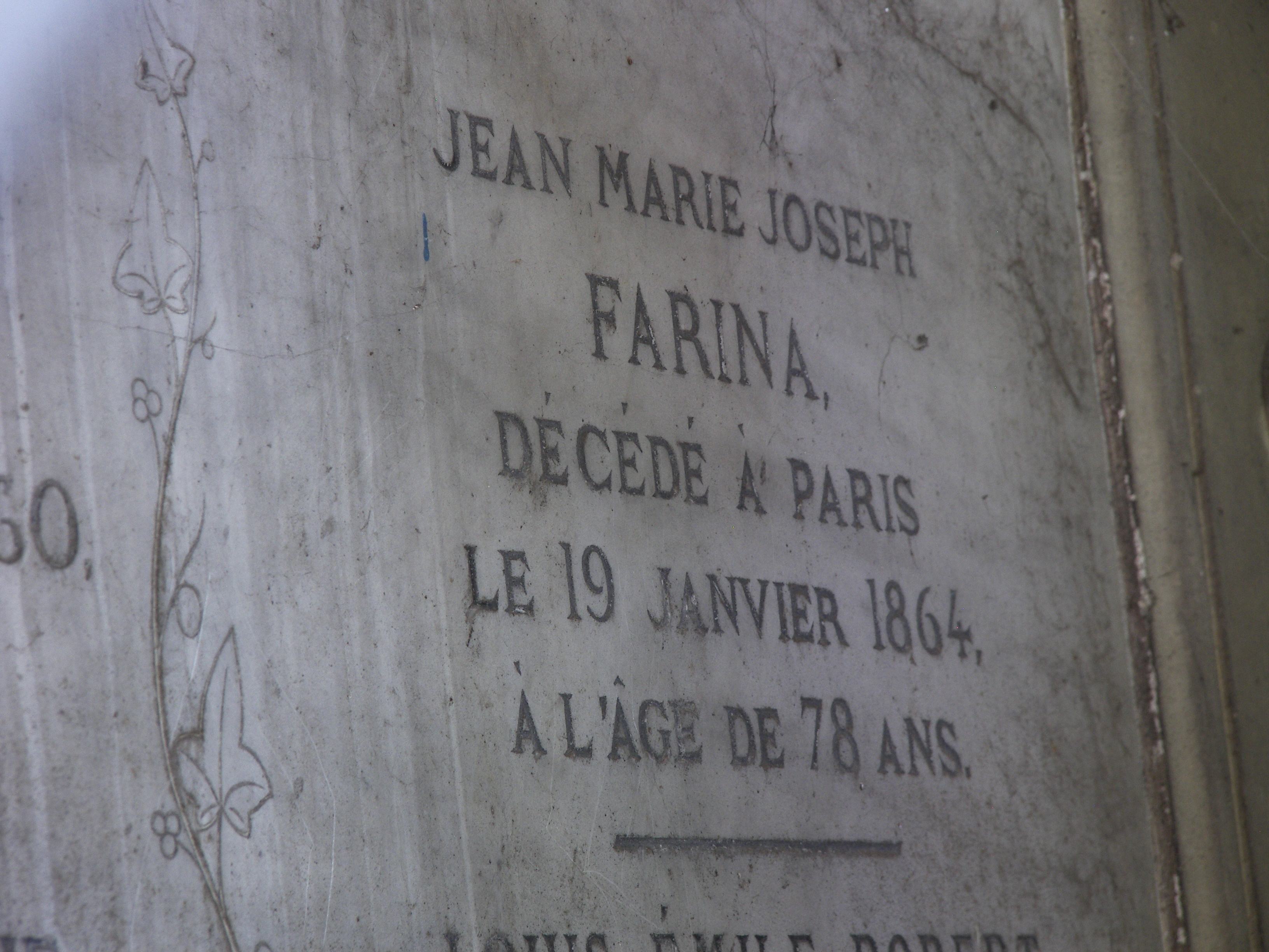 Grave og Jean Marie Joseph Farina, Cimetière de Montmartre, Paris